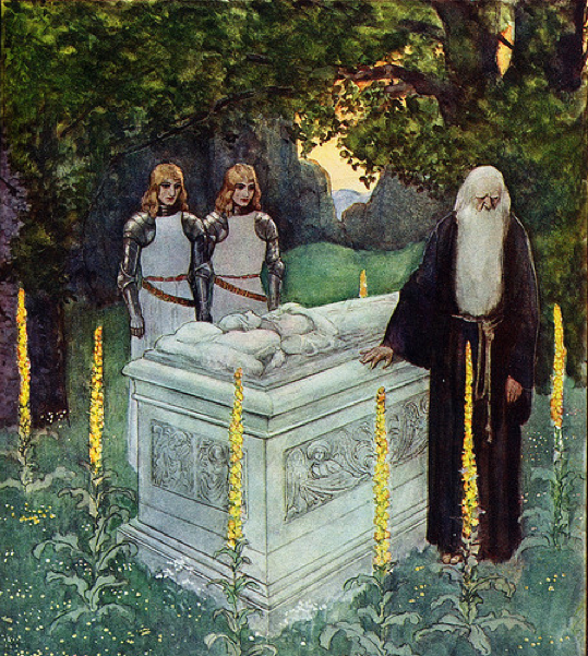 Illustration by Czech painter Artuš Scheiner for Julius Zeyer’s Román o věrném přátelastvá Amise a Amila